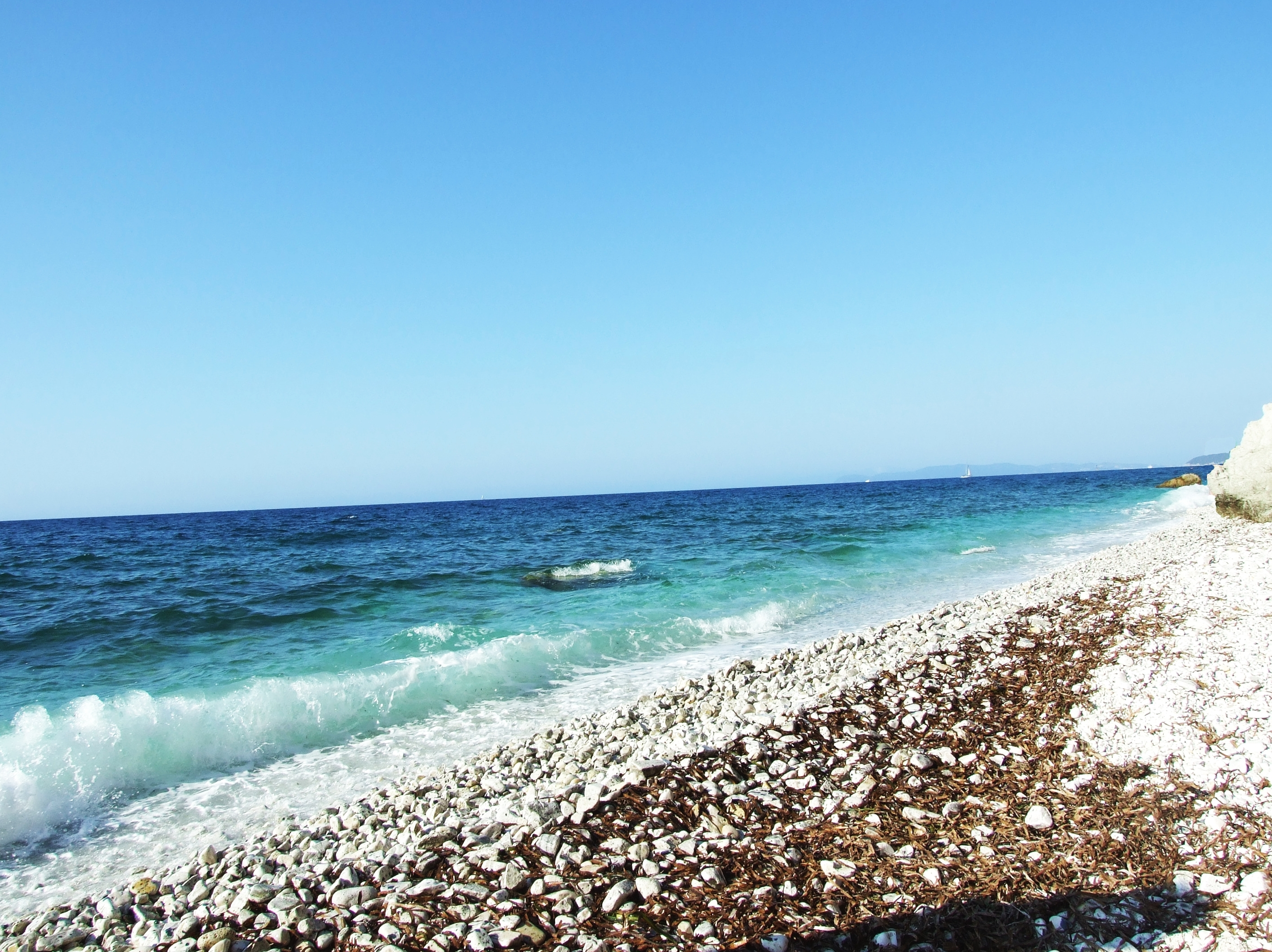 Padulella beach — Elba. Within the Arcipelago Toscano National Park and marine sanctuary.